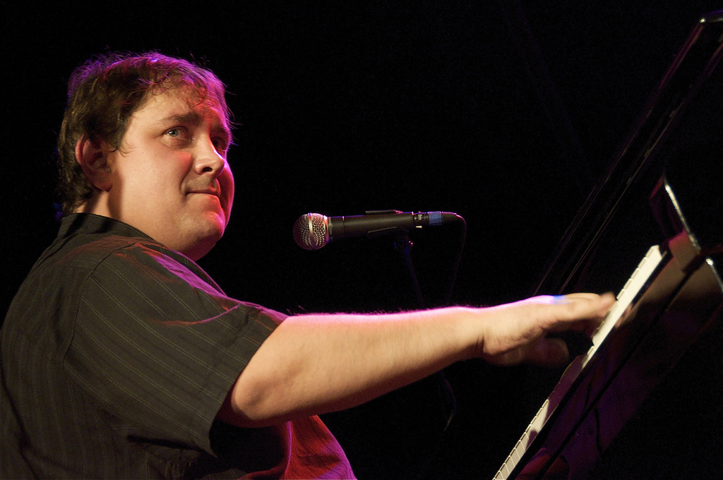 British pianist Ben Waters with the band The ABC&D of Boogie Woogie in Casino Herisau, Switzerland on January 13, 2010.